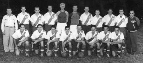 KUTIS soccer team photo. A national powerhouse of the 1950's. Personally owned photograph.